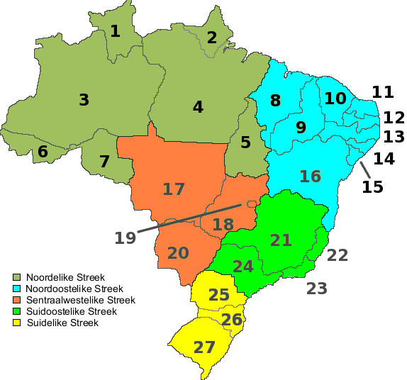 Map of Brazil with different regions indicated.